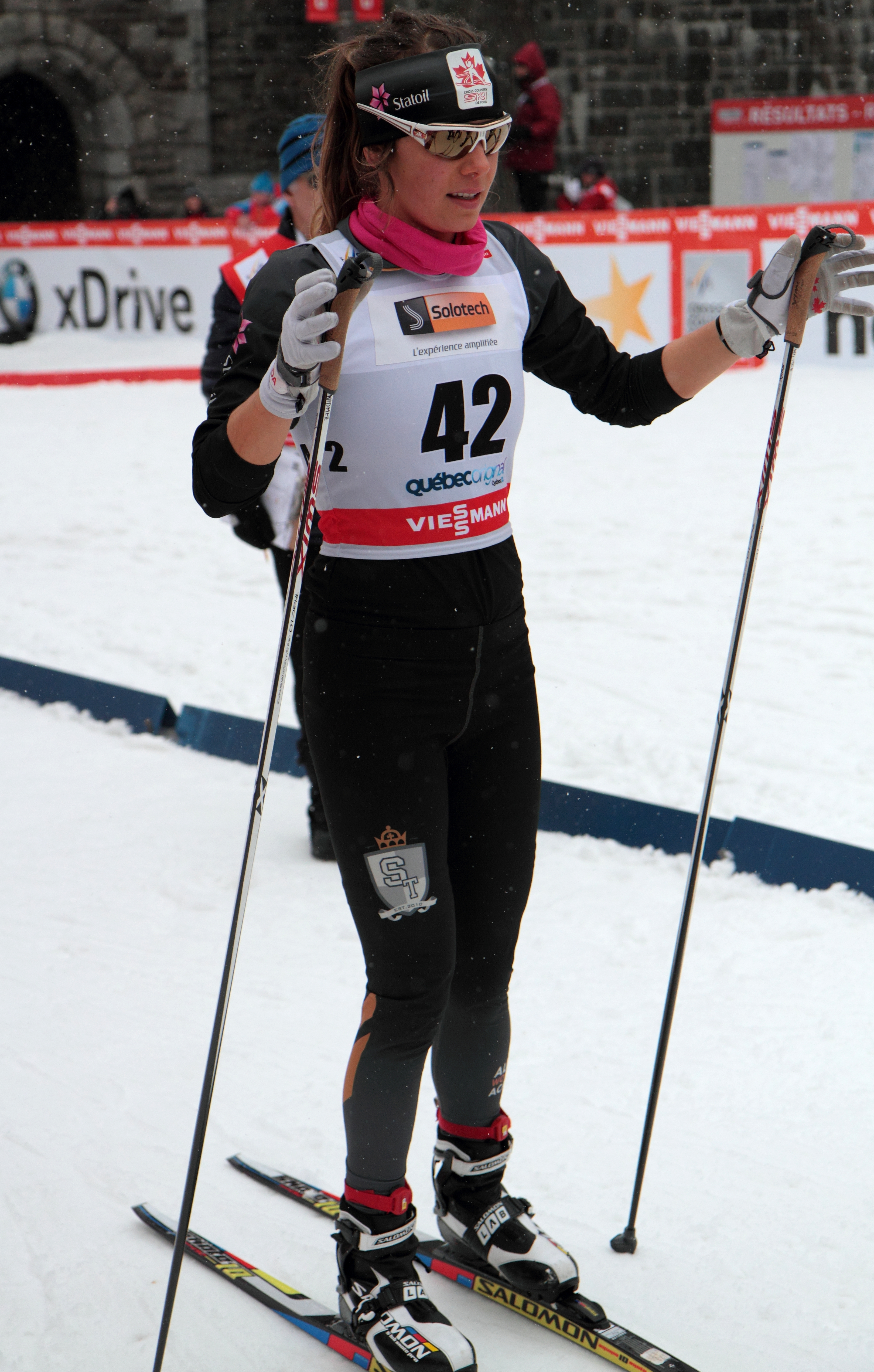 Heidi Widmer, FIS Cross-Country World Cup, 2012, Quebec, Canada